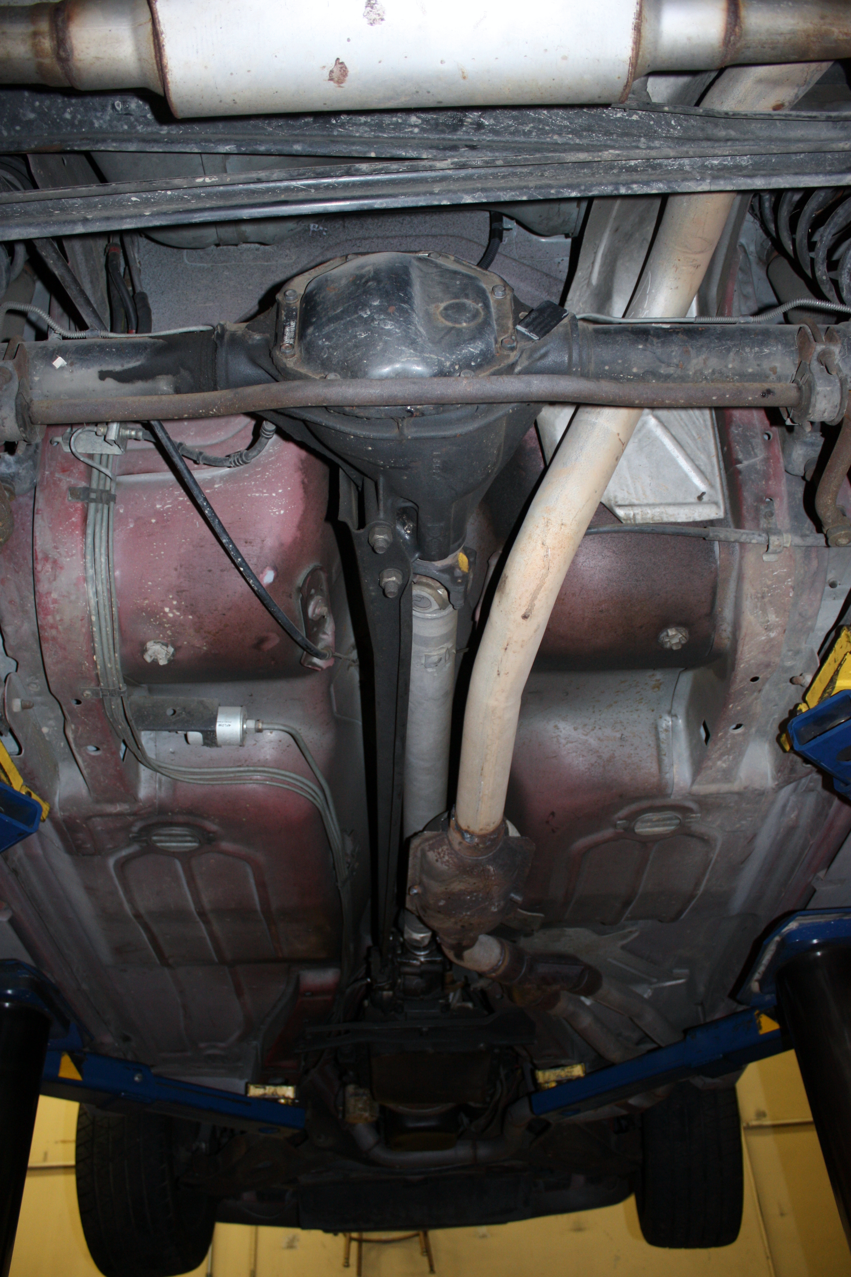 No rust underneath, not too dirty either.